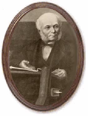 Miniature of Saul Solomon. Liberal Politician of the Cape Colony.